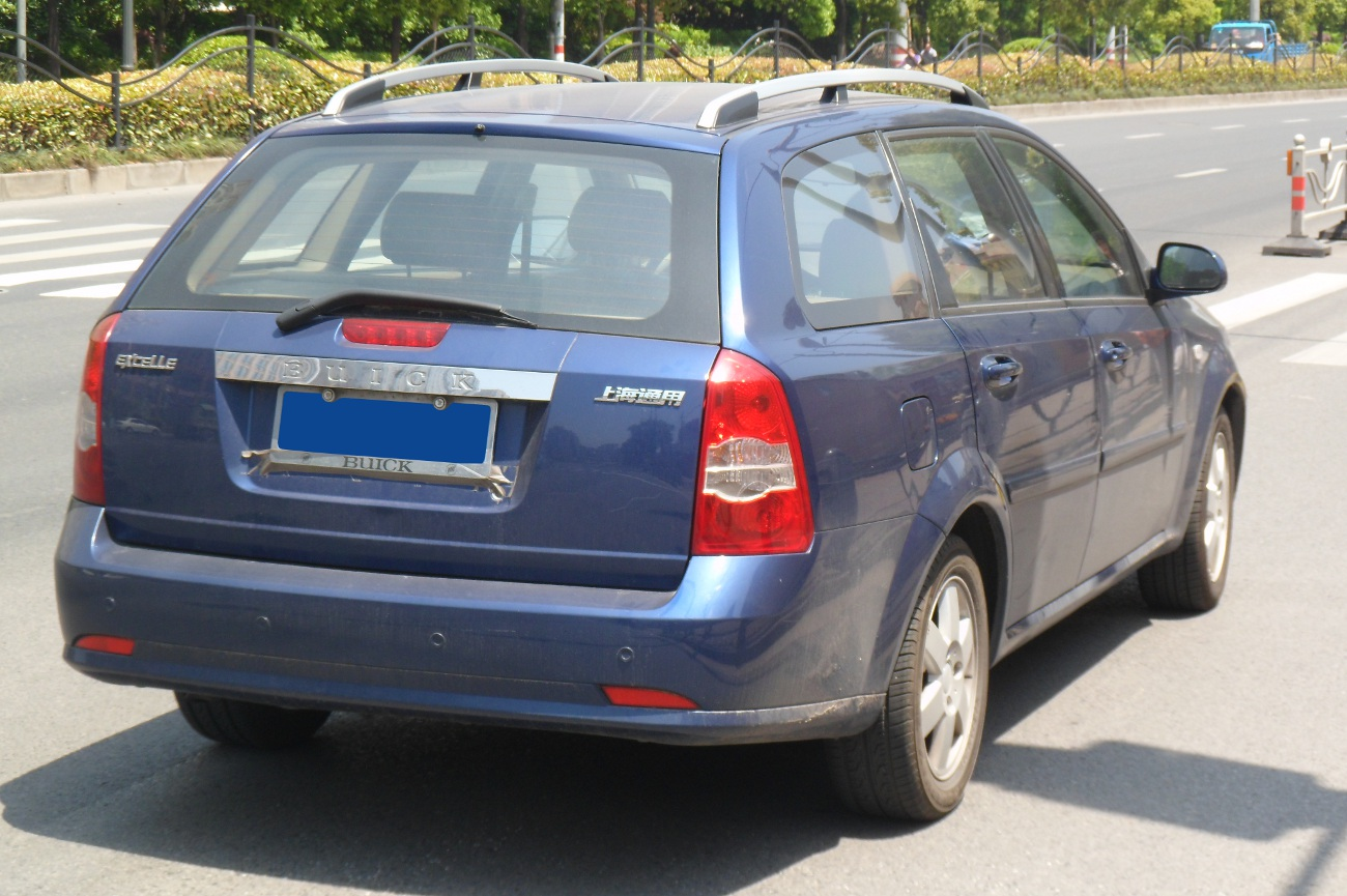 Buick Excelle Wagon photographed in Shanghai, China.